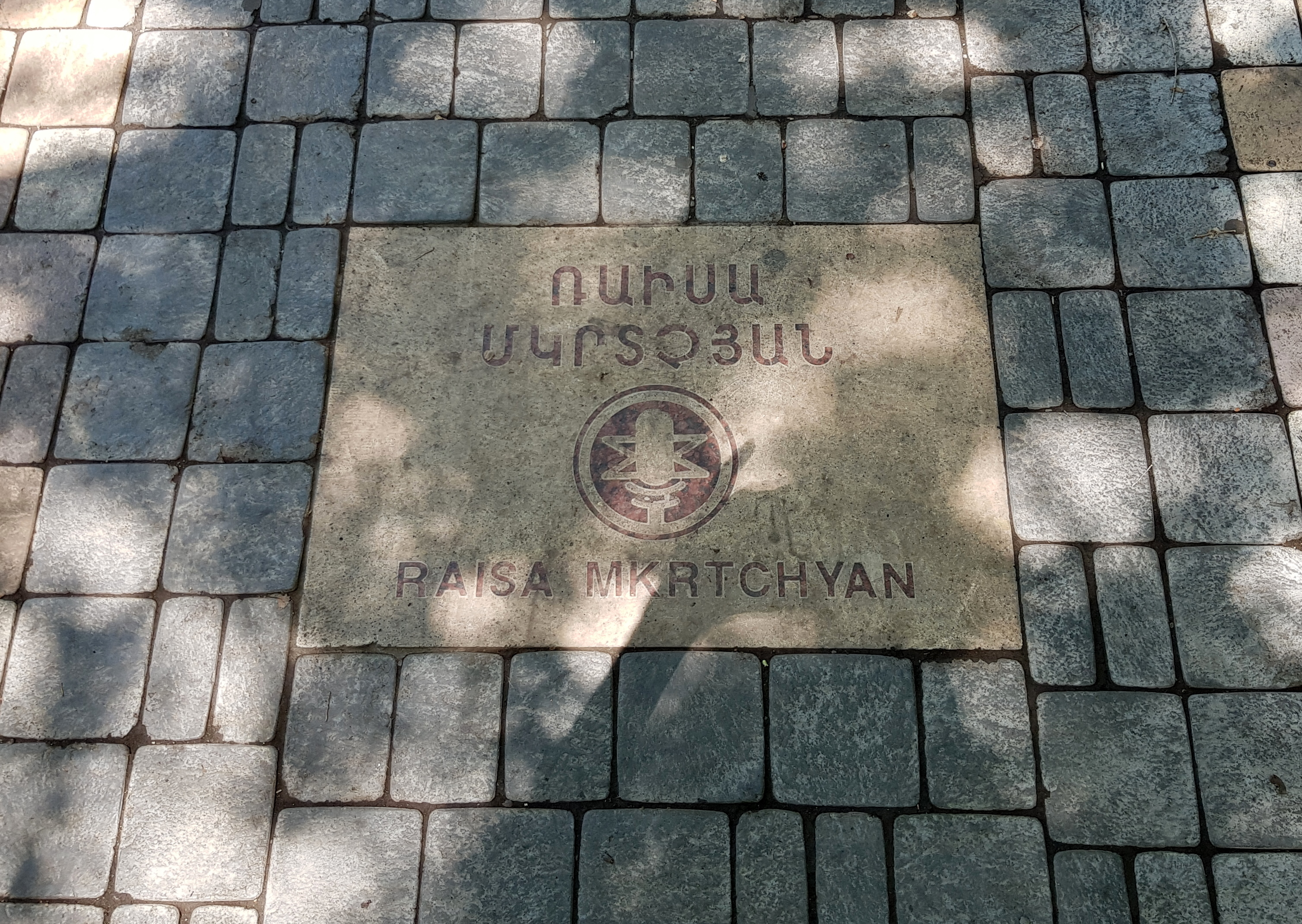 Alley of Devotees, Yerevan